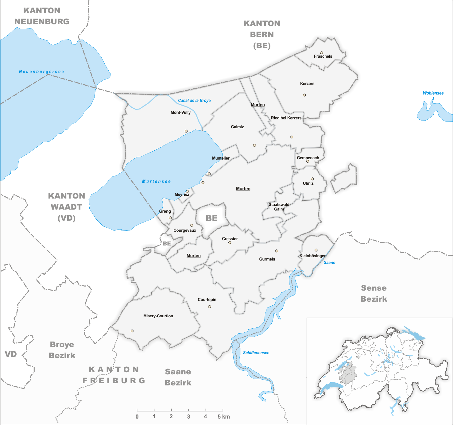 Municipality in the District of See